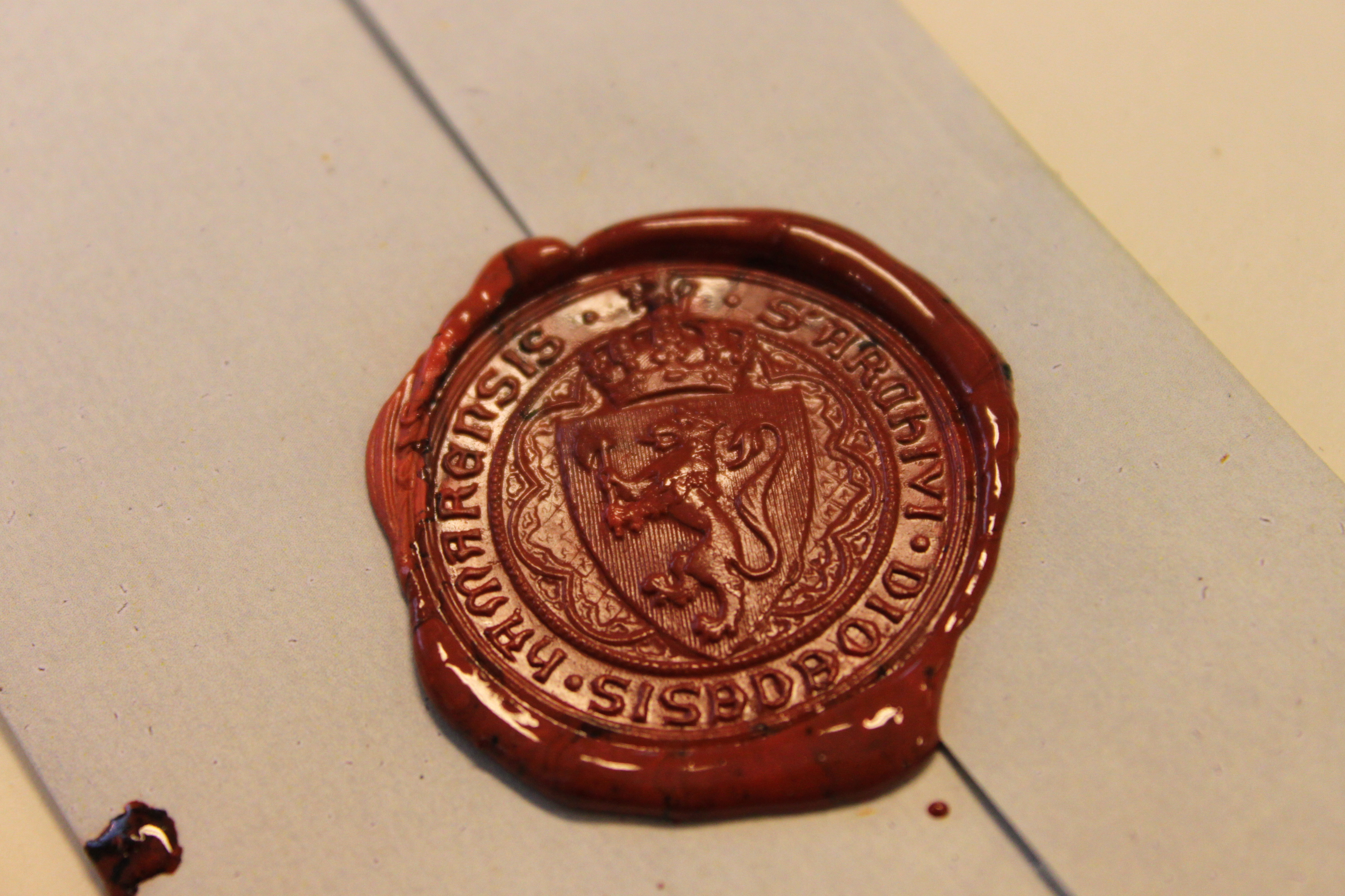 Statsarkivet i Hamar sitt lakksegl